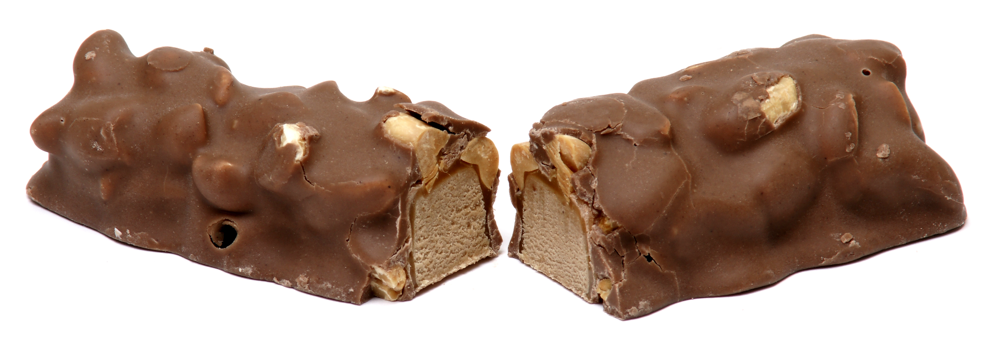 A Baby Ruth candy bar split in half.